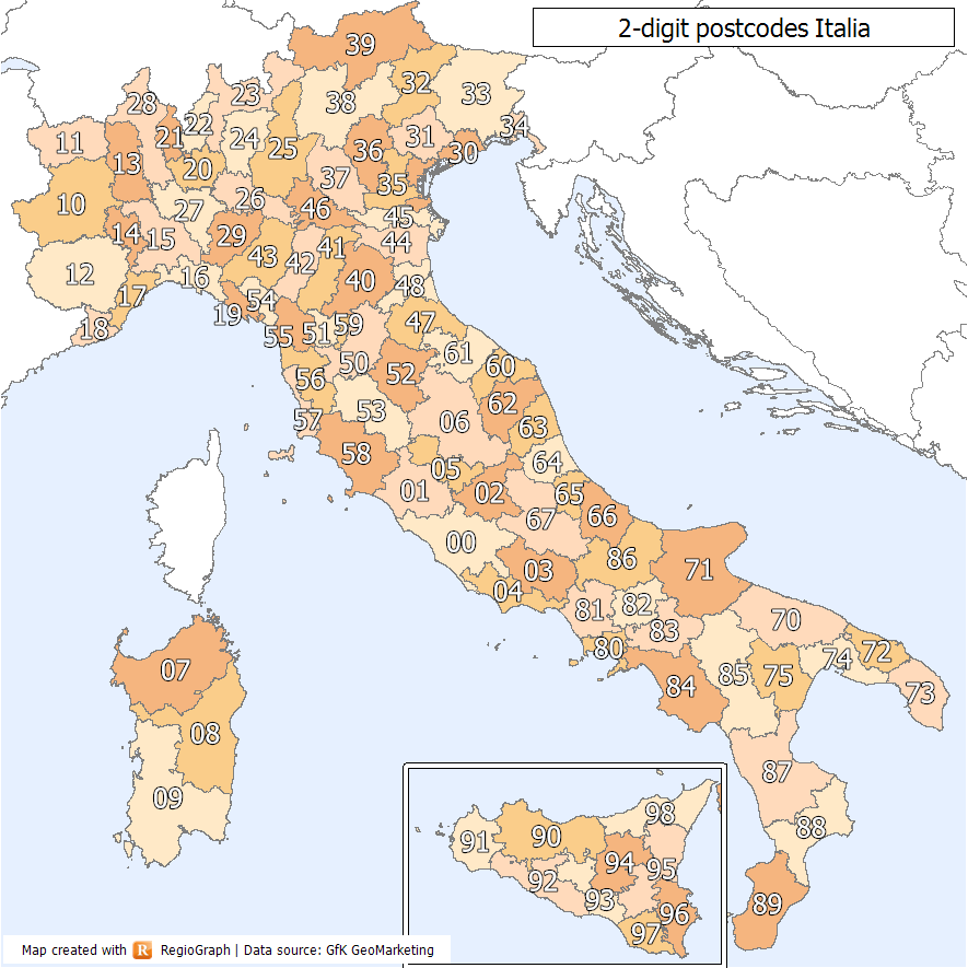 2-digit postcodes Italy: postcode areas, described through the first two digits of the Italian postcode system.